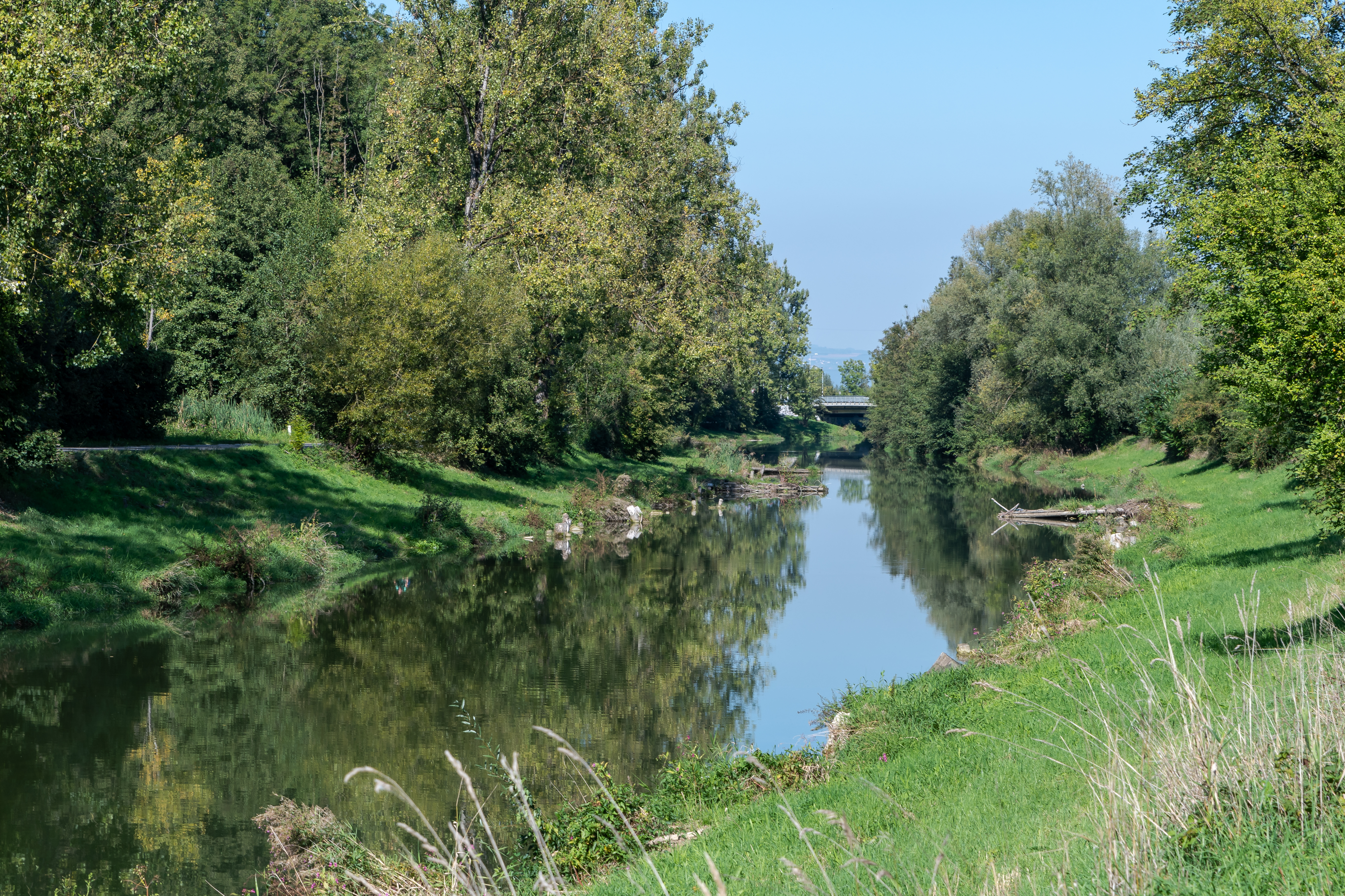 River Krems is a tributary of the river Traun in Upper Austria.